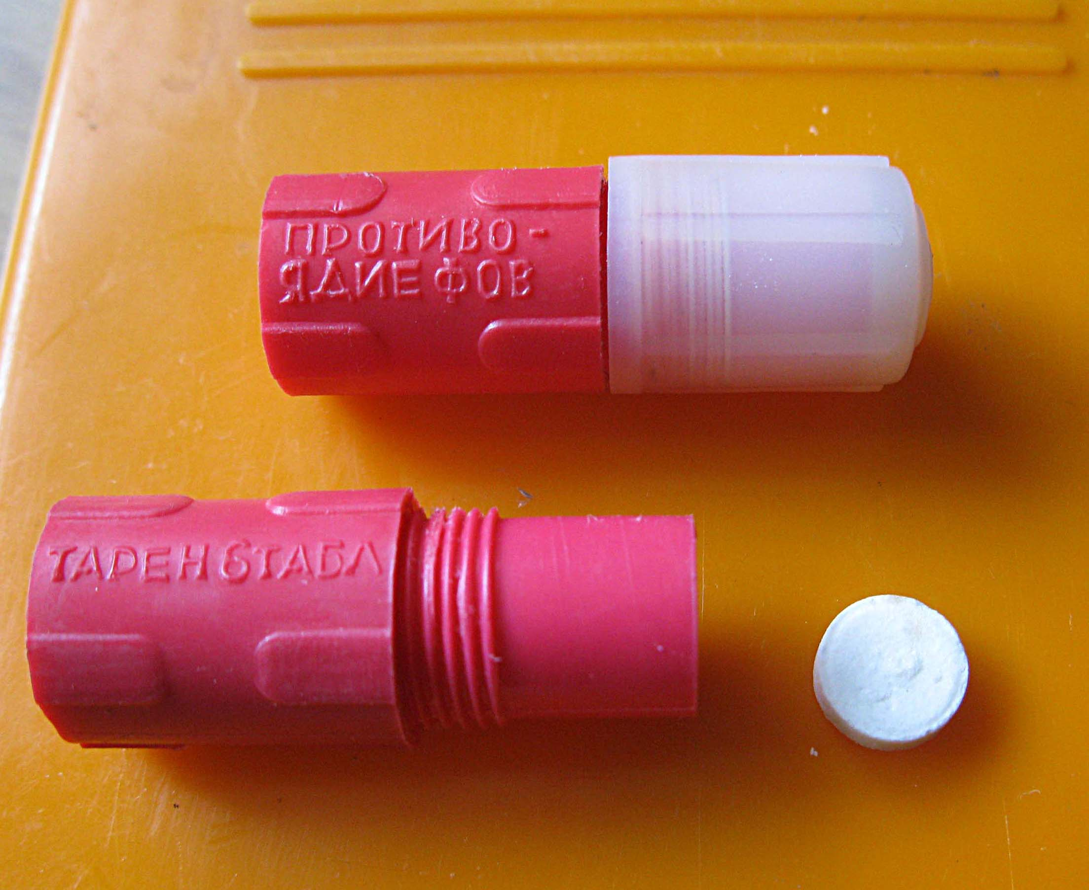 Aprofene (Aprofen) (Russia) (aka Taran in India), sometimes used illegally as a hallucinogen